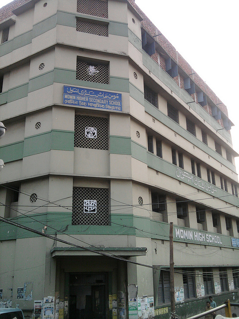 Momin High Secondary School Established in 1945 By Momin Council. One of its founding member Late Haji Abdur Rahim also a founder of Nawab Soap Company